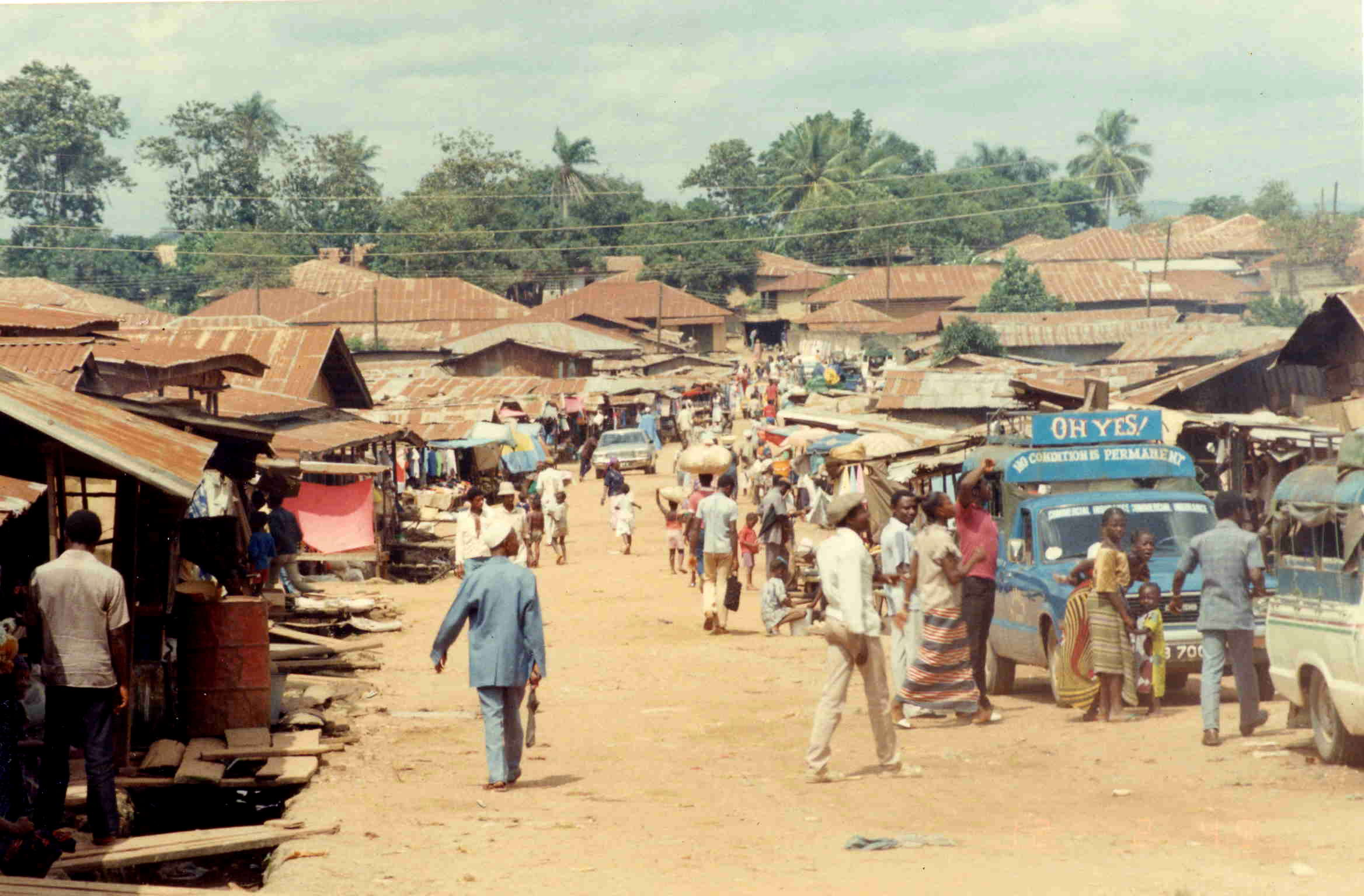 Koidu's big market , just off the main " high street " here livestock and provisions are bought and sold . . . as are ' Shakers, Shovels, Buckets ( in Creole ' kettulls ' ), Pumps, et al. ', the everyday implements of the Illicit Diamond Miner. Sierra Leone